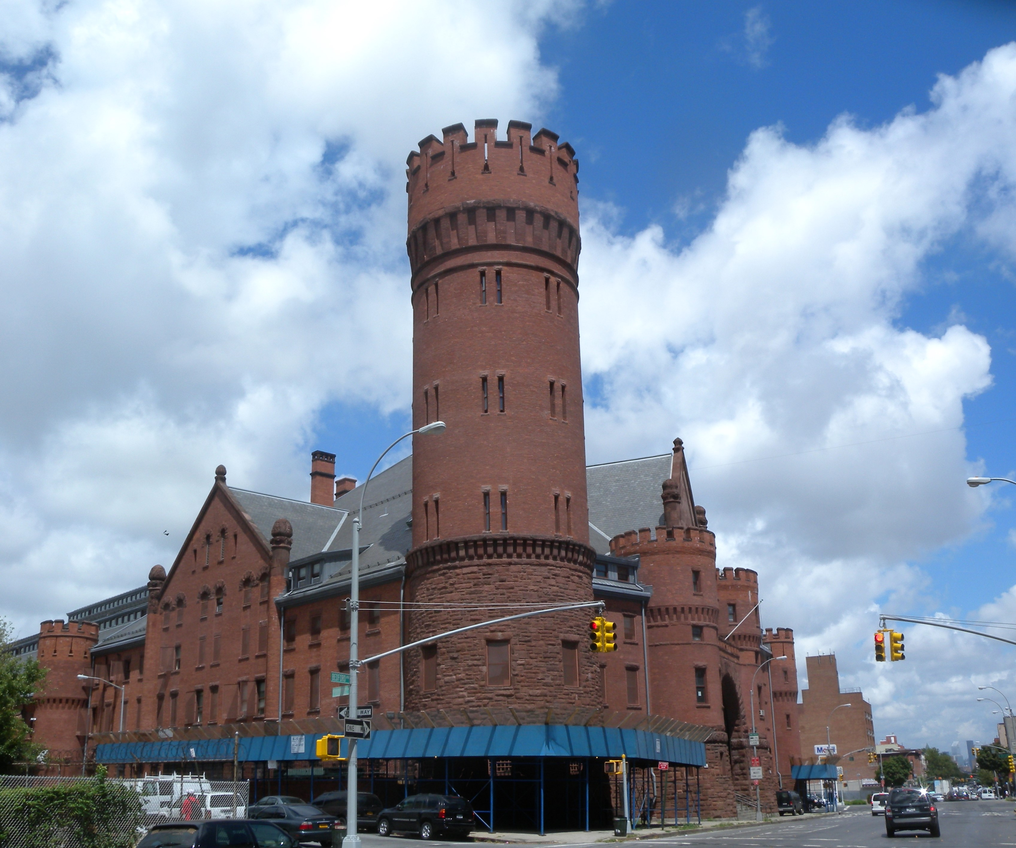 Looking northwest across Pacific Street and Bedford Avenue at 23d Regiment tower.